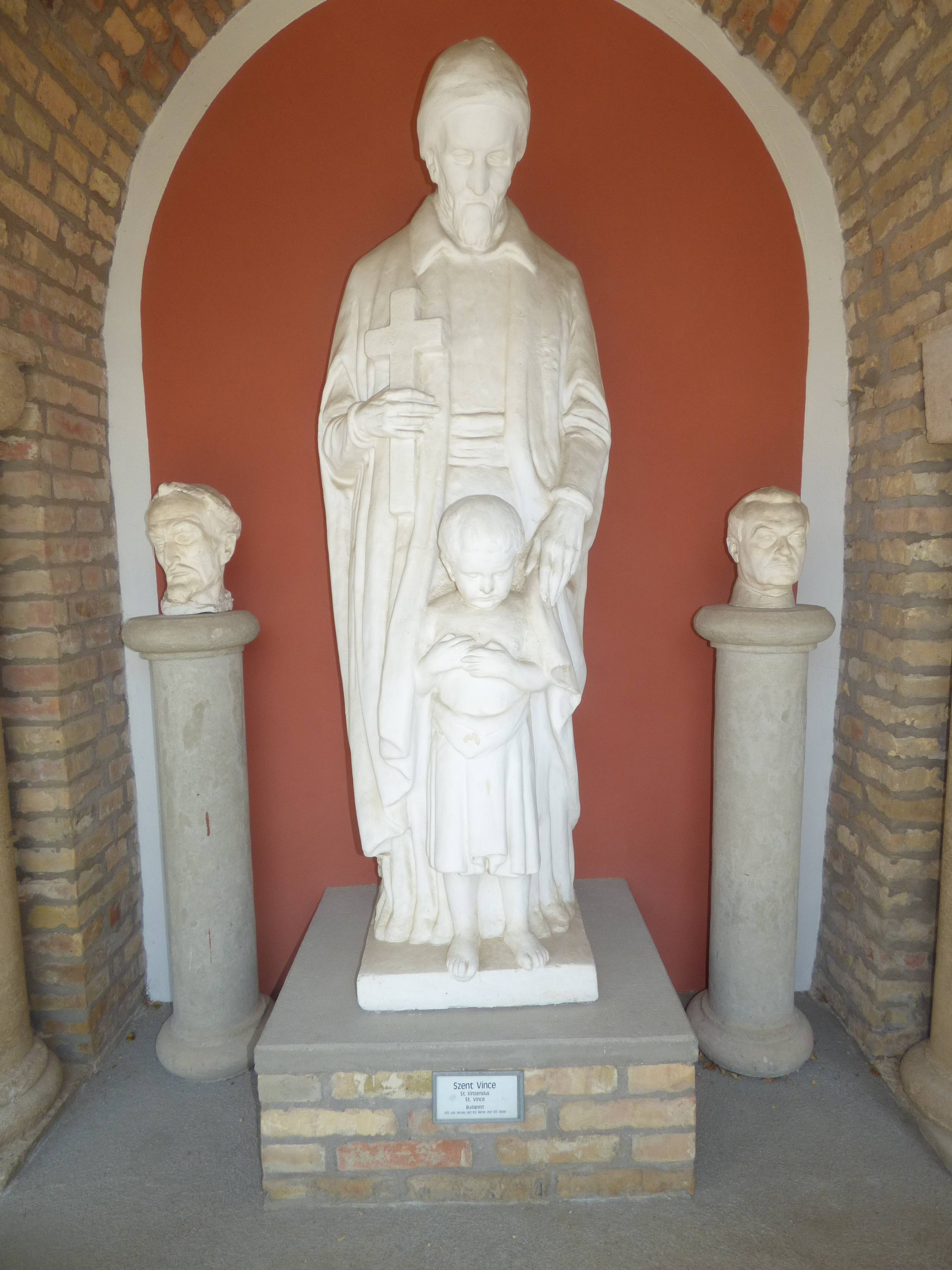 Szent Vince szobra a Bory-várban